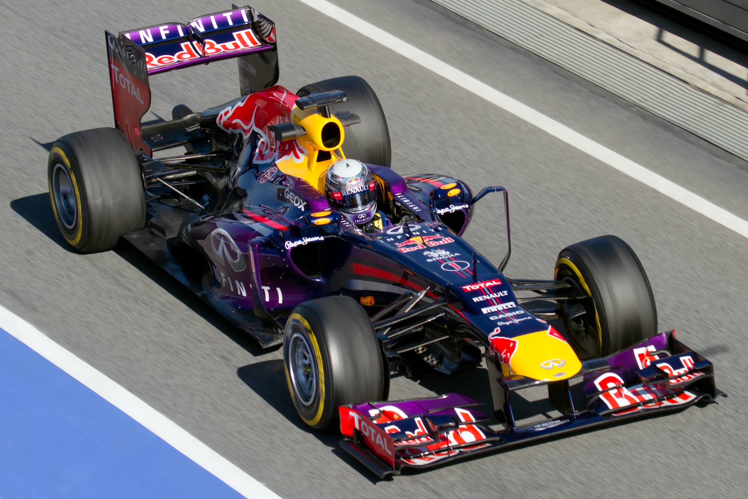 Formula One 2013 Catalonia test (19-22 February): Sebastian Vettel (Red Bull)